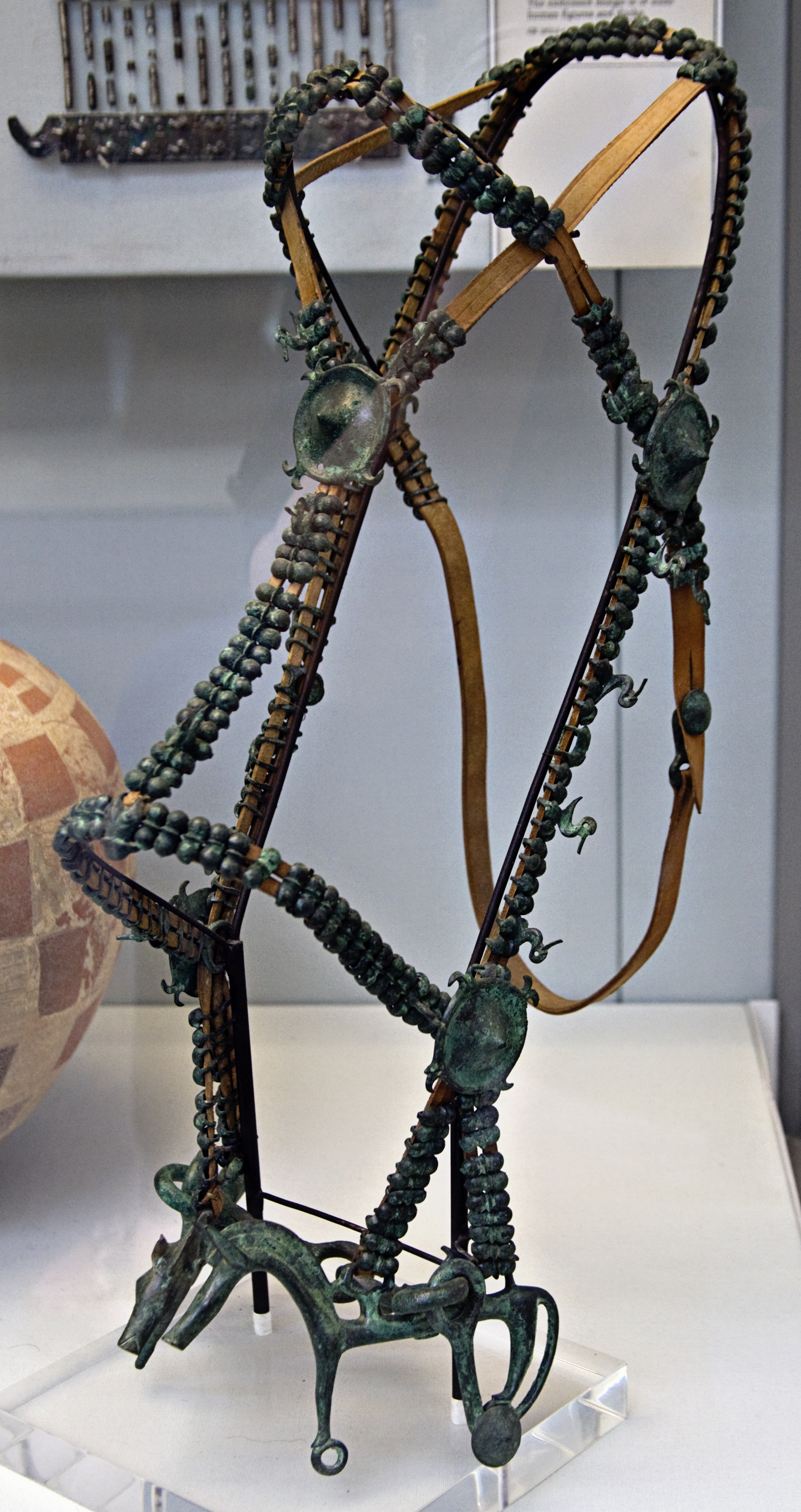 Bronze bit and bridle in the British Museum. Tag on exhibit reads: "Bronze horse-bit and other ornaments from a bridle. Etruscan, 700-650 BC. Perhaps made at Betulonia. The cheek pieces are cast in the form of horses, a motif perhaps derived from the Near East. Other ornaments show influence from central Europe." and "Castellani Collection GR 1873.9-20.246 (Bronze 357)" See BM database entry for more details.